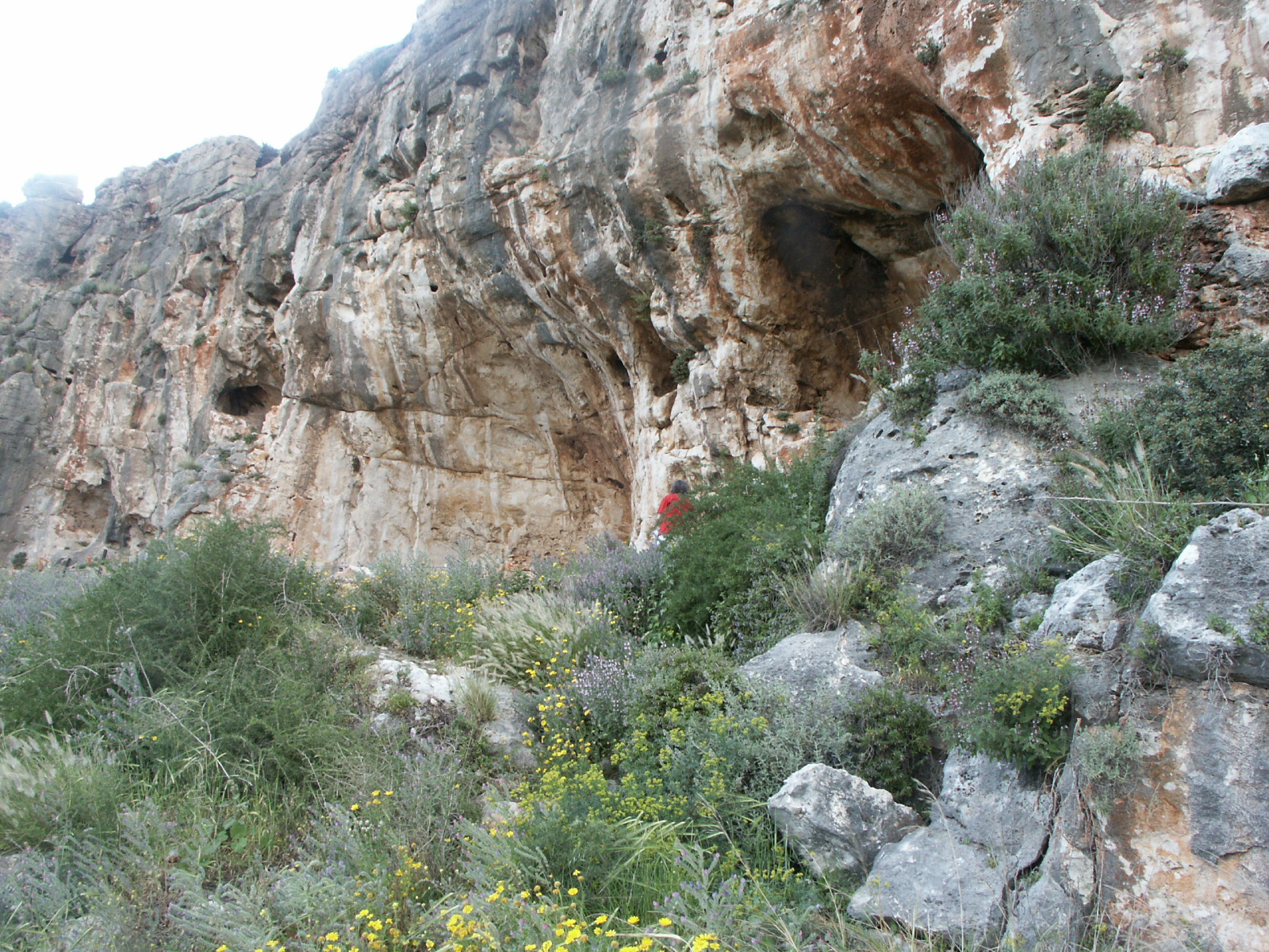 Milsiya Cave prehistoric site, Mount Carmel, Israel